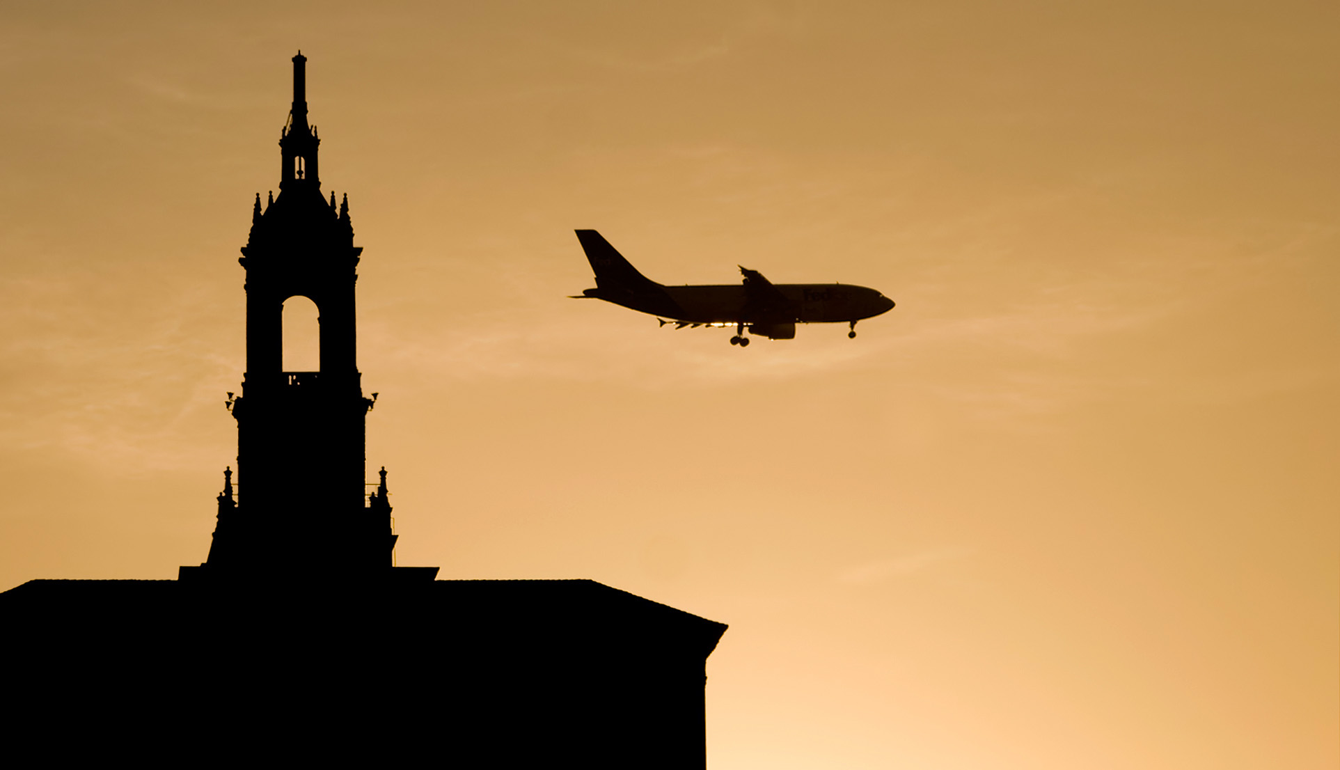 The sunset silhouettes a FedEx plane and the Bank of America Building's tower in downtown San Jose, CA, as the plane approaches Mineta San Jose International Airport.